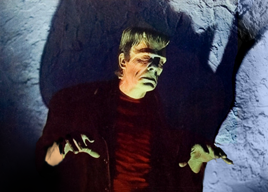 Cropped and edited lobby card for House of Dracula (Universal, 1945), featuring Glenn Strange as Frankenstein's Monster. Partially following the previous film's continuity, Strange portrays the monster as maimed, blind and shambling.